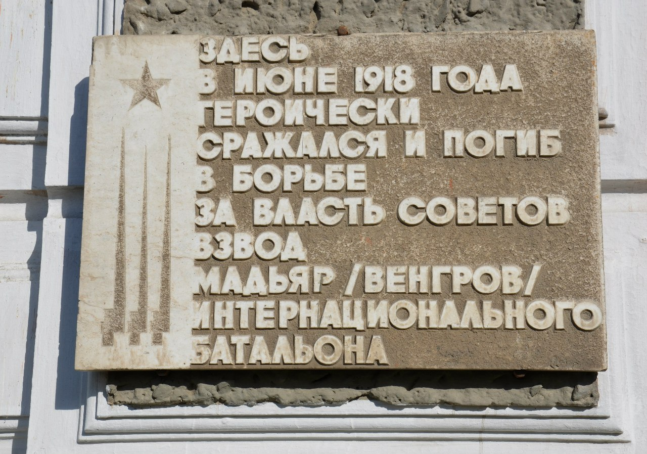 A memorial tablet on the building of the Troitsk Electromechanical Plant